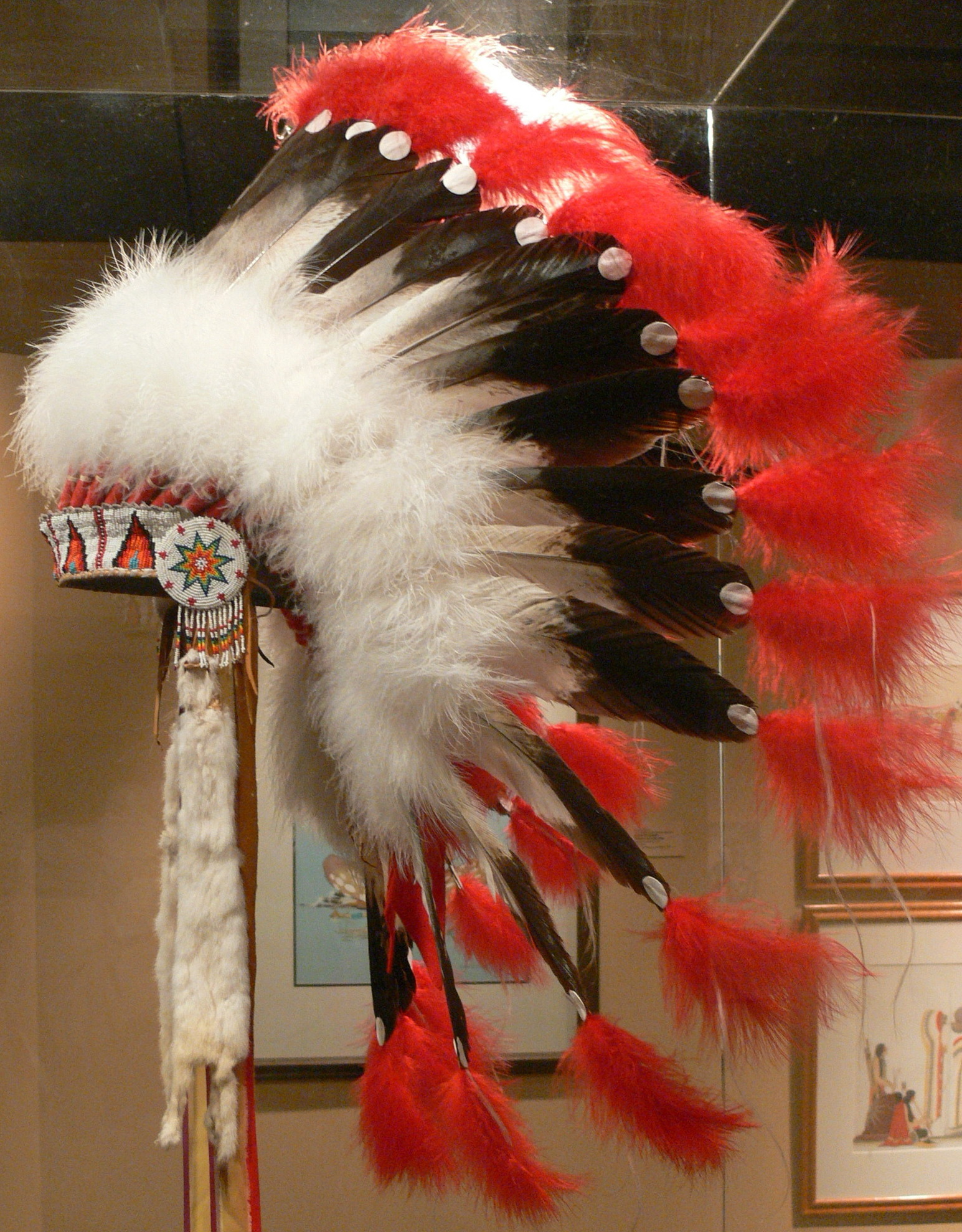 Tulsa, Oklahoma. Gilcrease Museum: Creek feather bonnet ( 1970 )